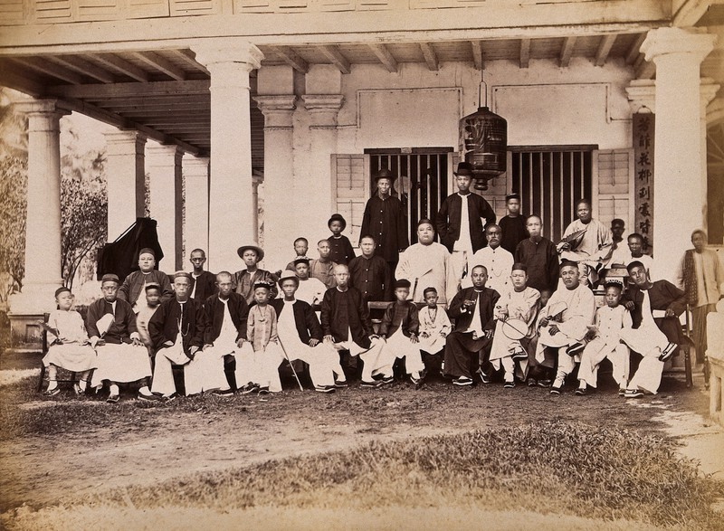 Malaysia: Chinese merchants grouped outside their club house on Penang Island.